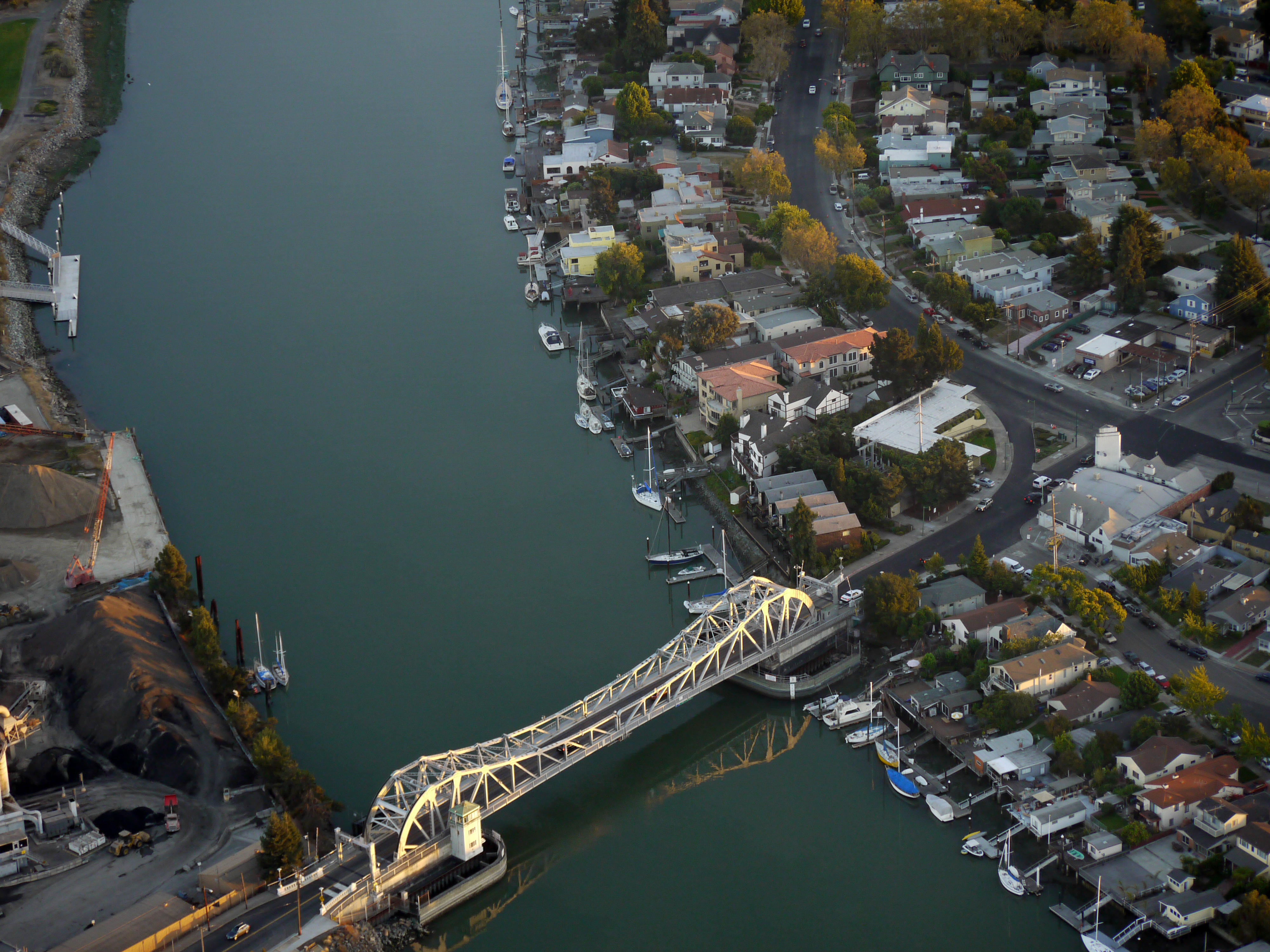 Aerial view of the High Street Bridge, a 1939 double-leaf bascule bridge connecting the cities of Oakland and Alameda, California